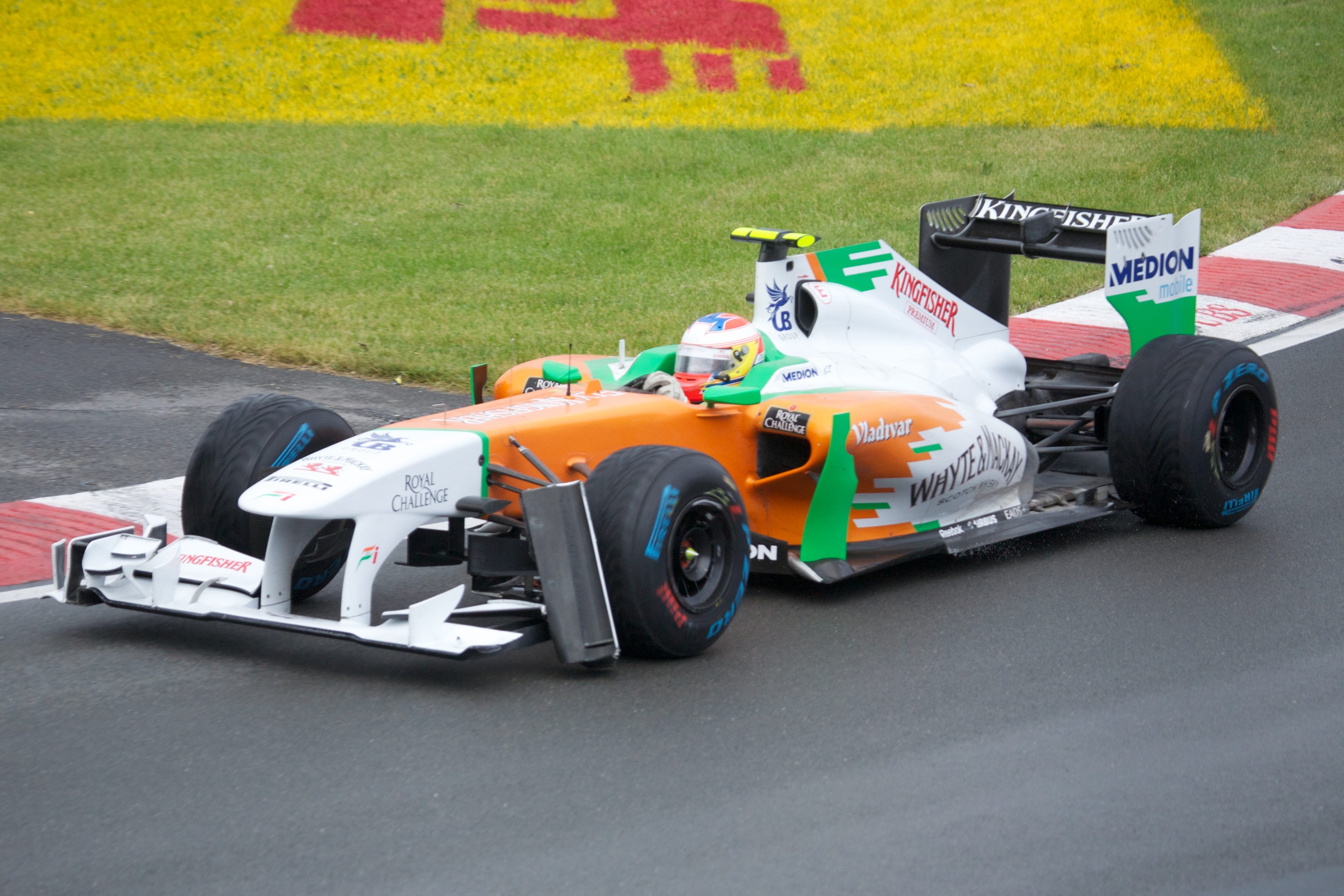 2011 Canadian Grand Prix